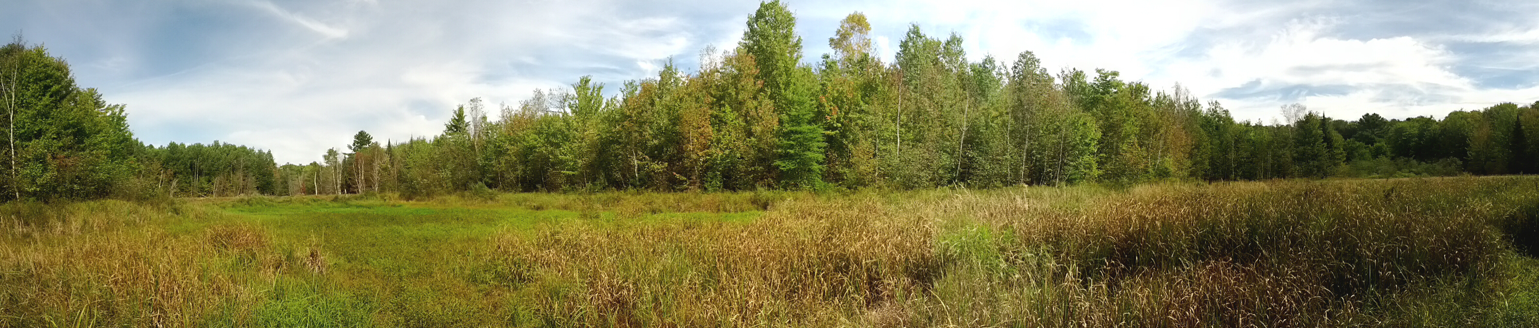 This is a dried pond or small lake bed in the recreational area, the Blue Hills near the town of Bruce, WI taken on September 14, 2013